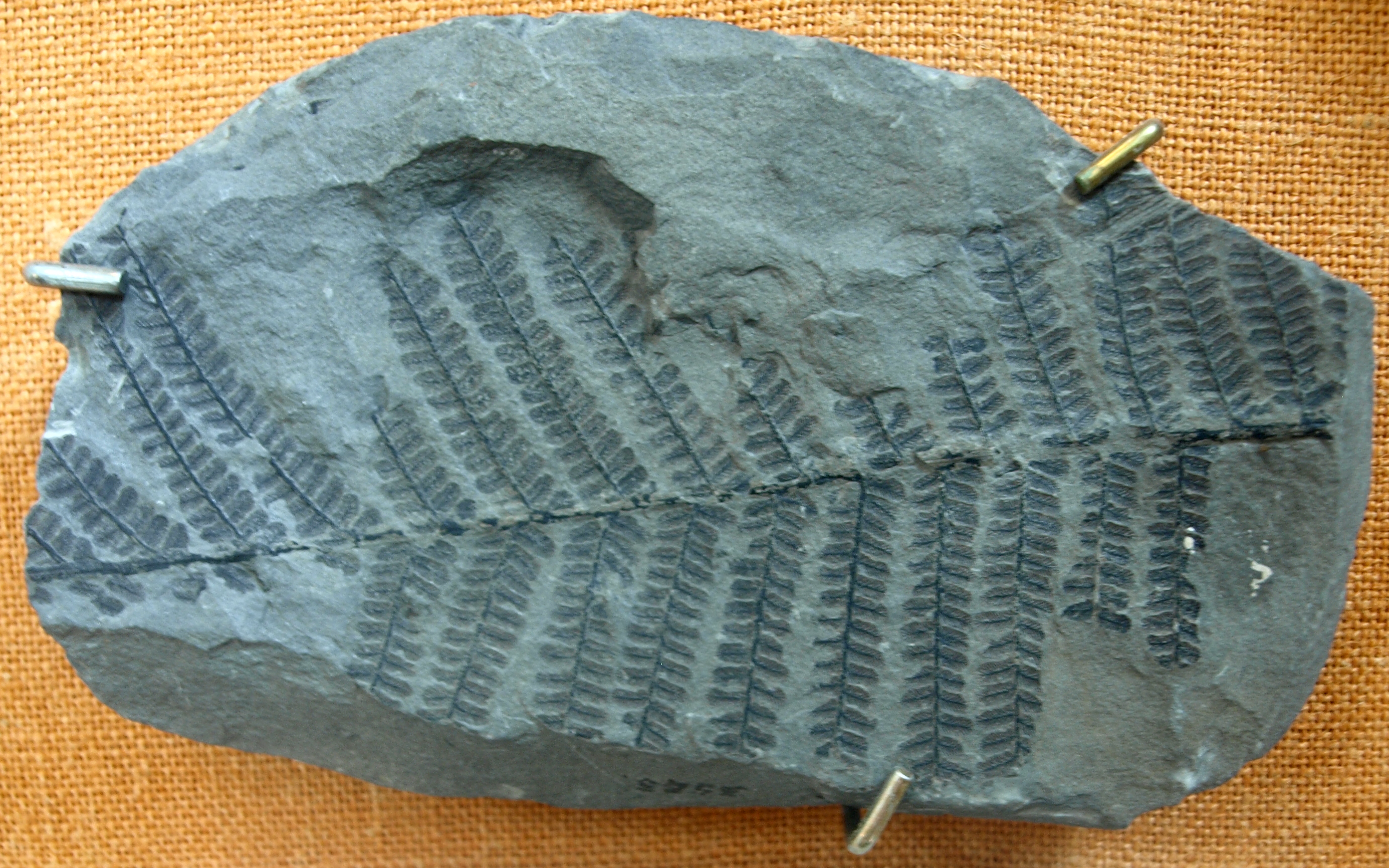 A fossil of Pecopteris bucklandi, on display at the Redpath Museum, Montreal.